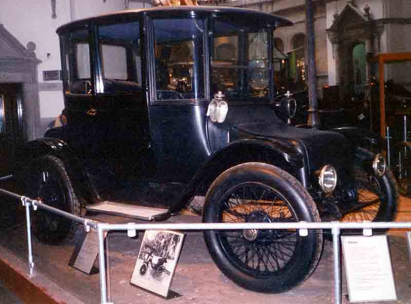 Detroit Electric Brougham 1915